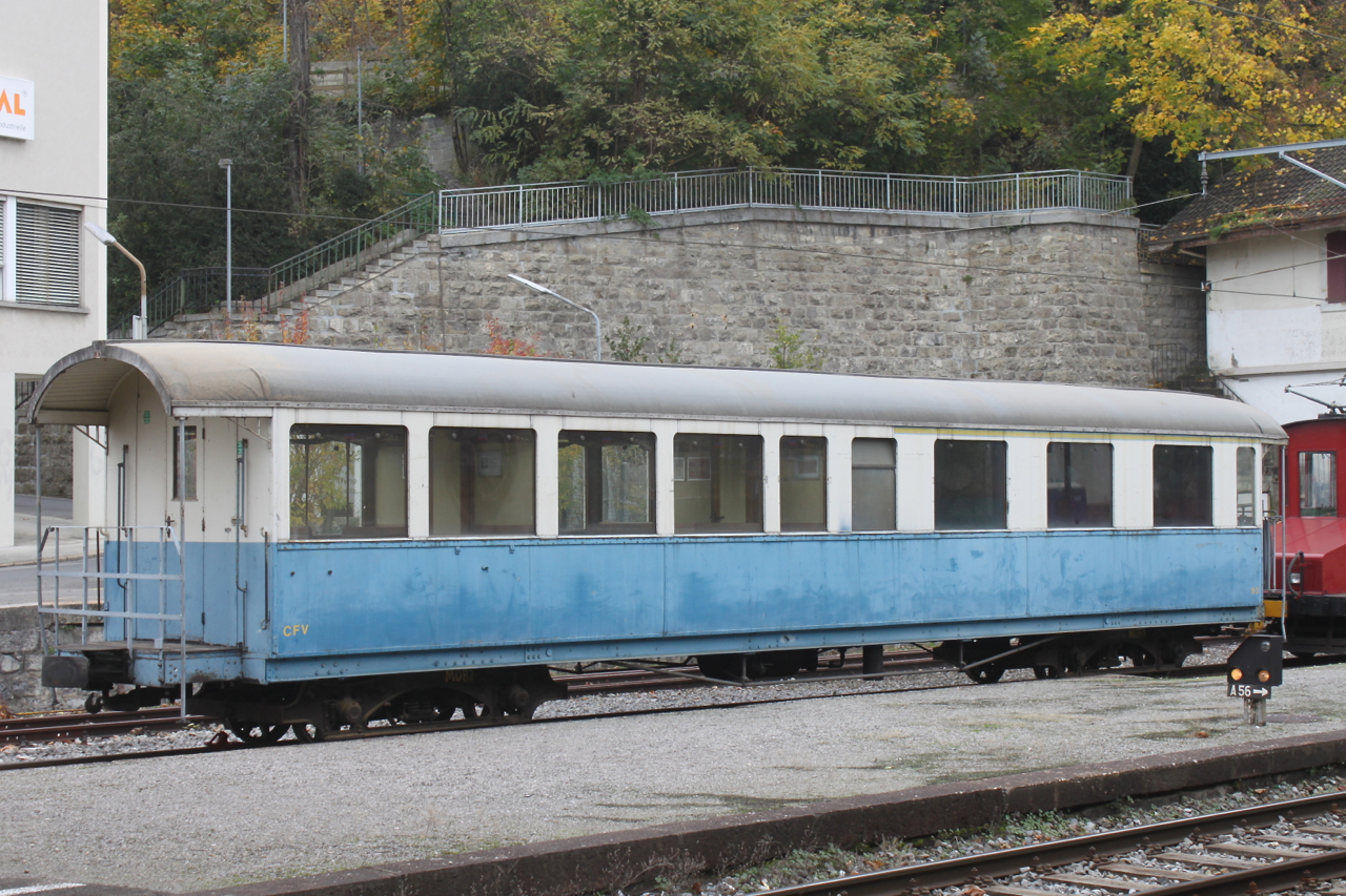 MOB AB4 93 (from 1981-1990 Chemin de fer du Vivarais) at Vevey train station.